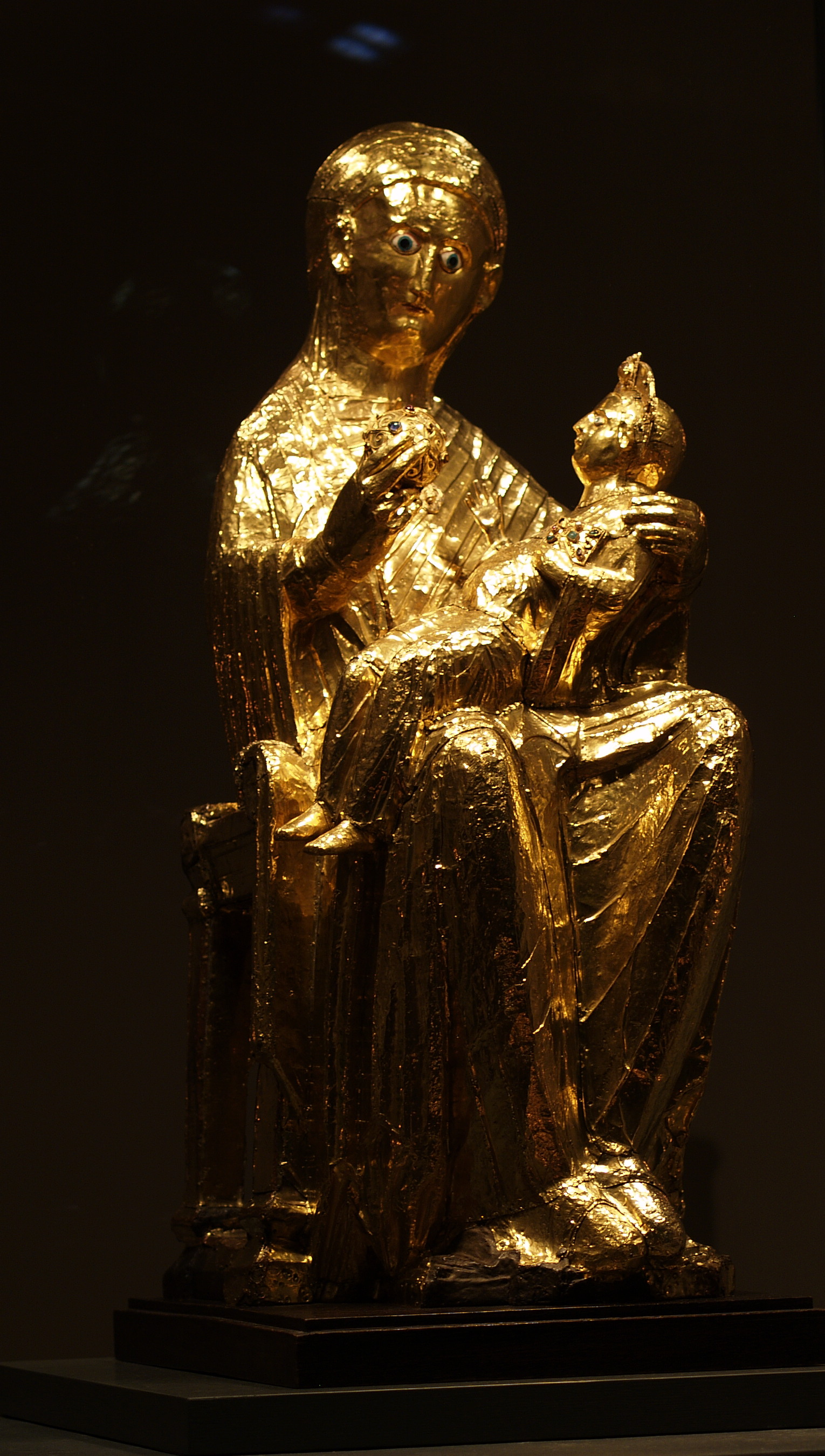 Gold plated madonna in the cathedrale of Essen, Germany